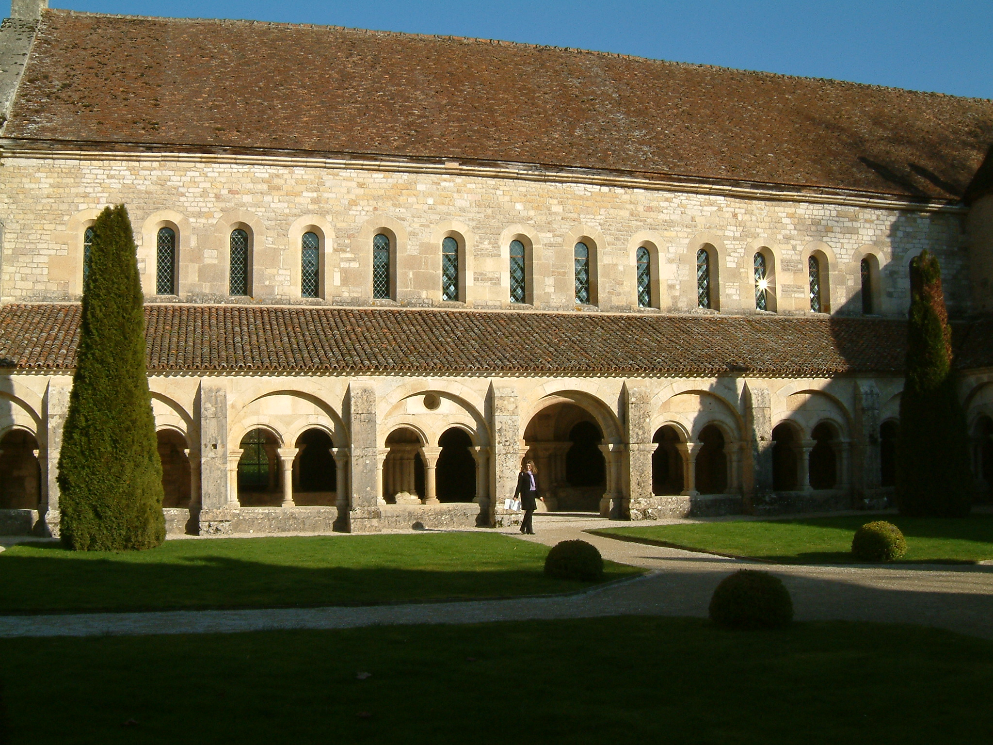 Fontenay Abbey, Burgundy, FRANCE.